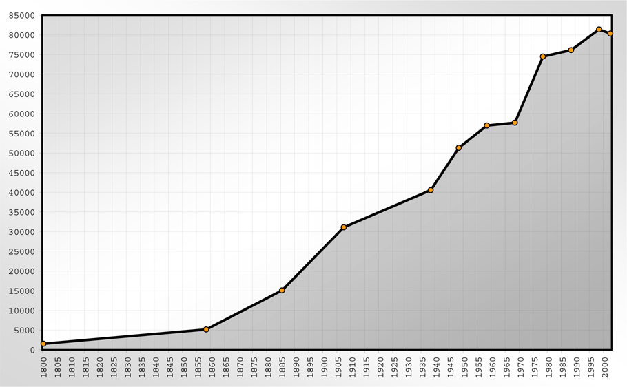 This image shows the population statistics of Lüdenscheid (Germany).